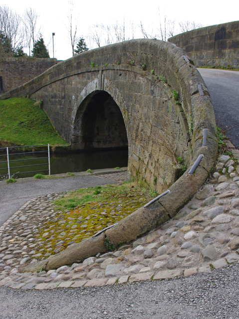 Bridge 98, Lancaster Canal. Basin Bridge, originally linked the canal depot with Aldcliffe Road and carried the tow-path across the canal, presumably to keep it clear of the wharves on the north side of the basin. The roving bridge design allowed the horses to cross over without untying the tow-rope. Presumably, the metal "staples" linking the coping stones prevented the tow-rope catching in the mortar between the stones. The bridge now forms part of the Lancaster cycle network. (See 1614603 for a more conventional view.)